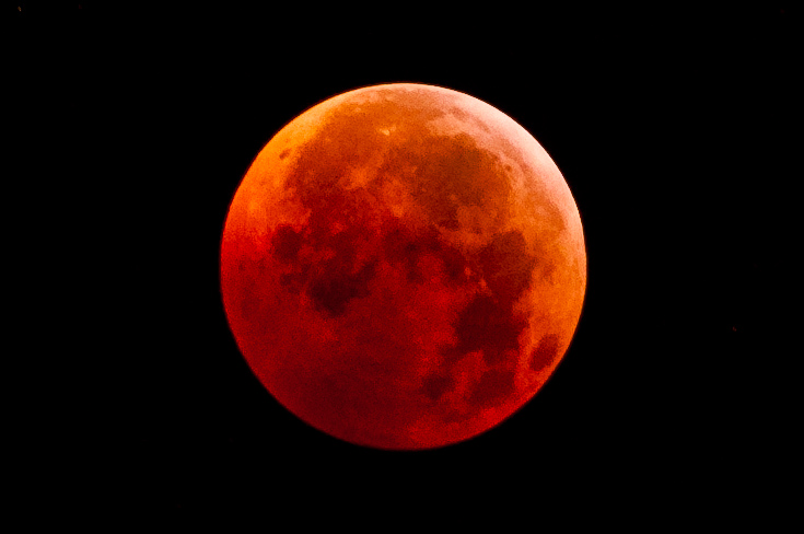 Lunar Eclipse Dec 21 2010- Toronto, Ontario, Canada